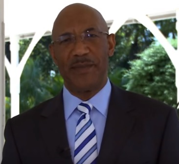 His Excellency The Most Honourable Sir Patrick Allen ON, GCMG, CD Governor General of Jamaica, recognises 6 young individuals who is impacting there community, at the launch of the ' I Believe 'initiative launch Thursday May 19th 2011, at King's House.